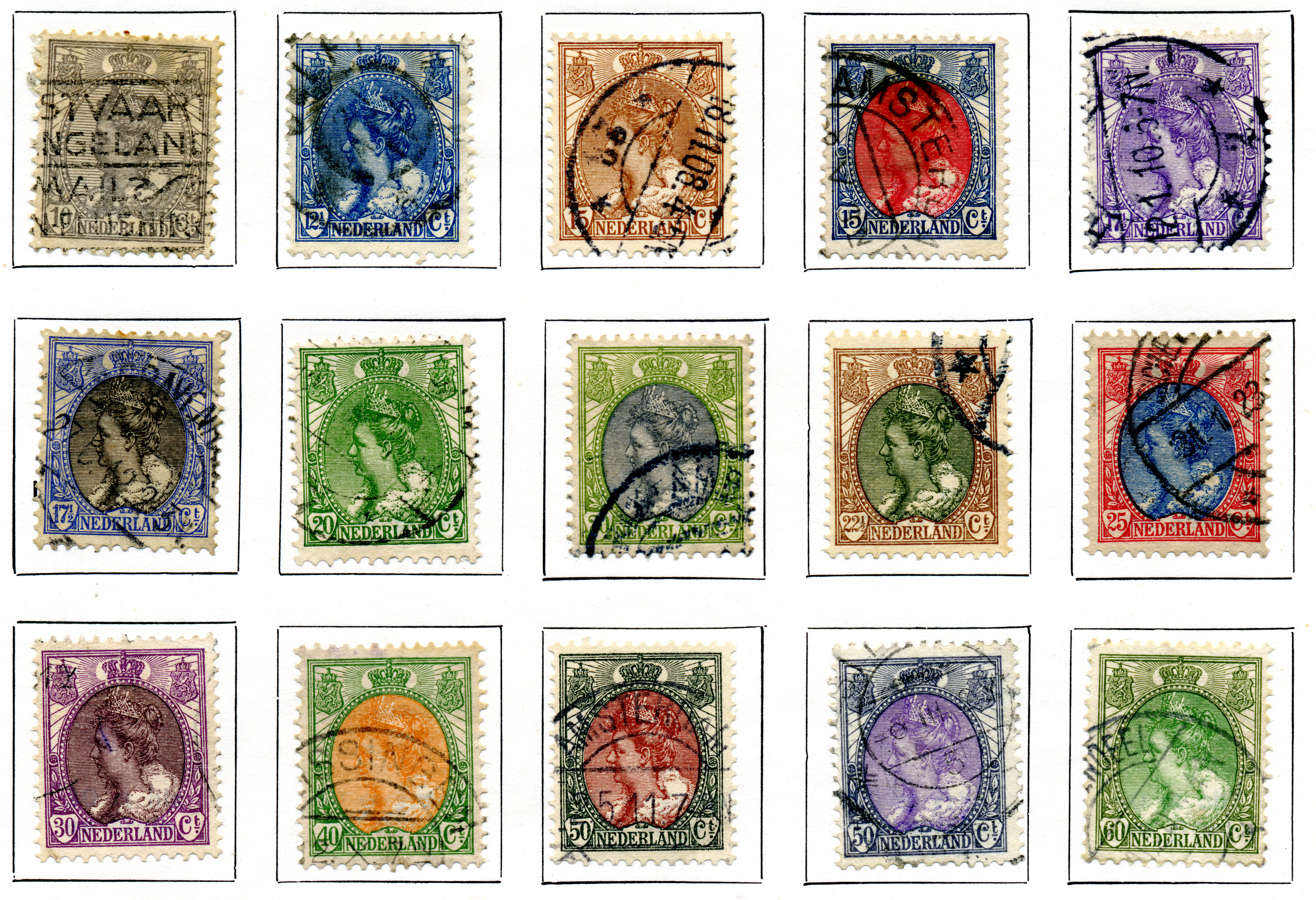 Koningin Wilhelmina 10 cent - 60 cent (1899-1921)